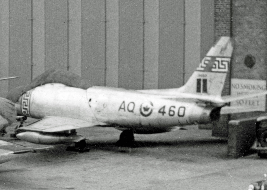 Canadair CL-13 Sabre 4 19460 AQ-460 of 414 Squadron Royal Canadiam Air Force in 1954